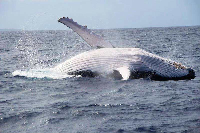 Avistamiento de ballenas